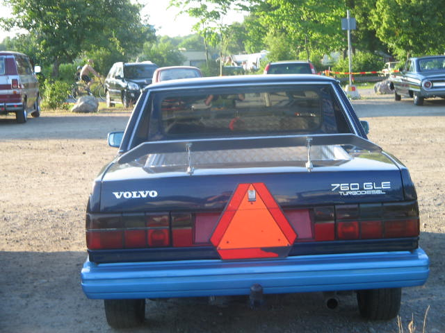 This is an example of a Volvo rebuilt into an "A tractor" (often incorrectly called "EPA tractor"). It means it only seats two persons and the maximum speed is 30 km/h.